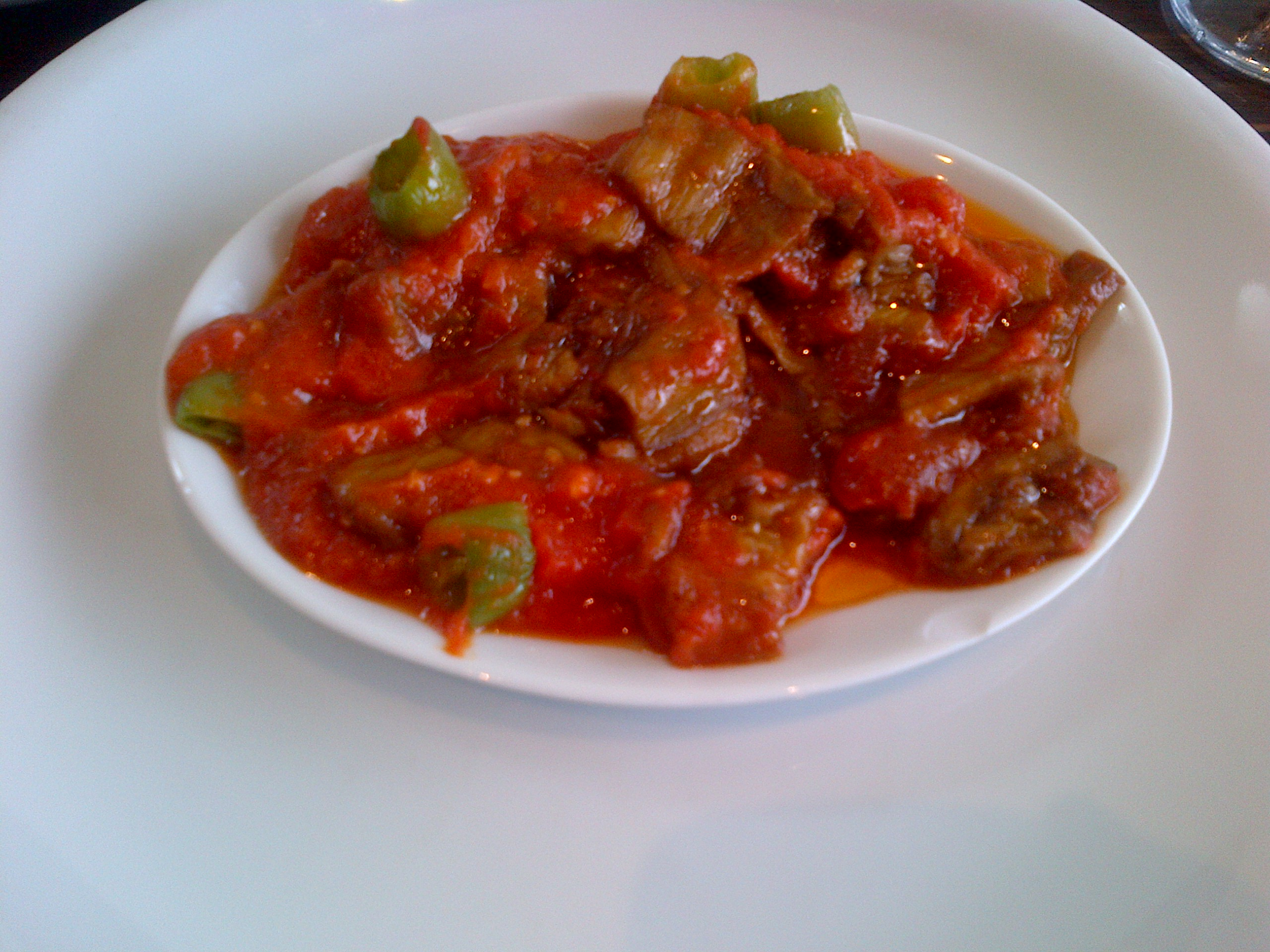 Eggplant and green pepper şakşuka (simple shakshuka, with two veggies) is a "meze" or starter dish from the Turkish cuisine.